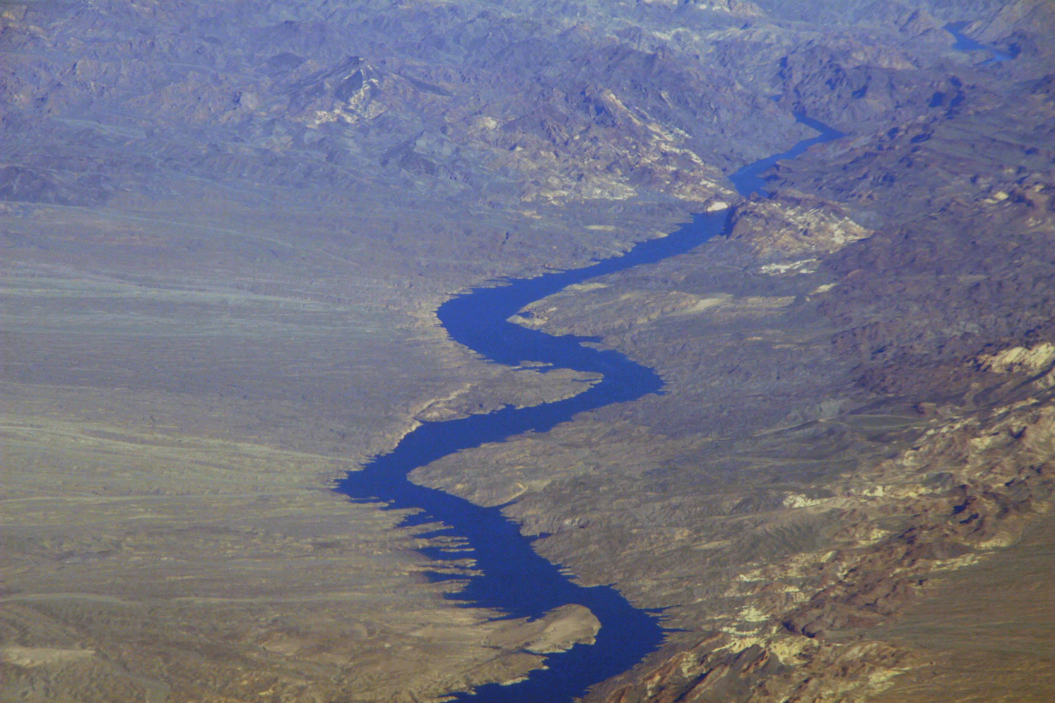 The Colorado River, (Lower Colorado River Valley), dammed up south of Hoover Dam and Lake Mead. Arizona is on the right, and Nevada on the left-(Eldorado Mountains, the Great Basin Divide down mountain ridgeline). The section is at the south end region of the Black Canyon of the Colorado. (the area is north of Lake Mohave on the Colorado.)